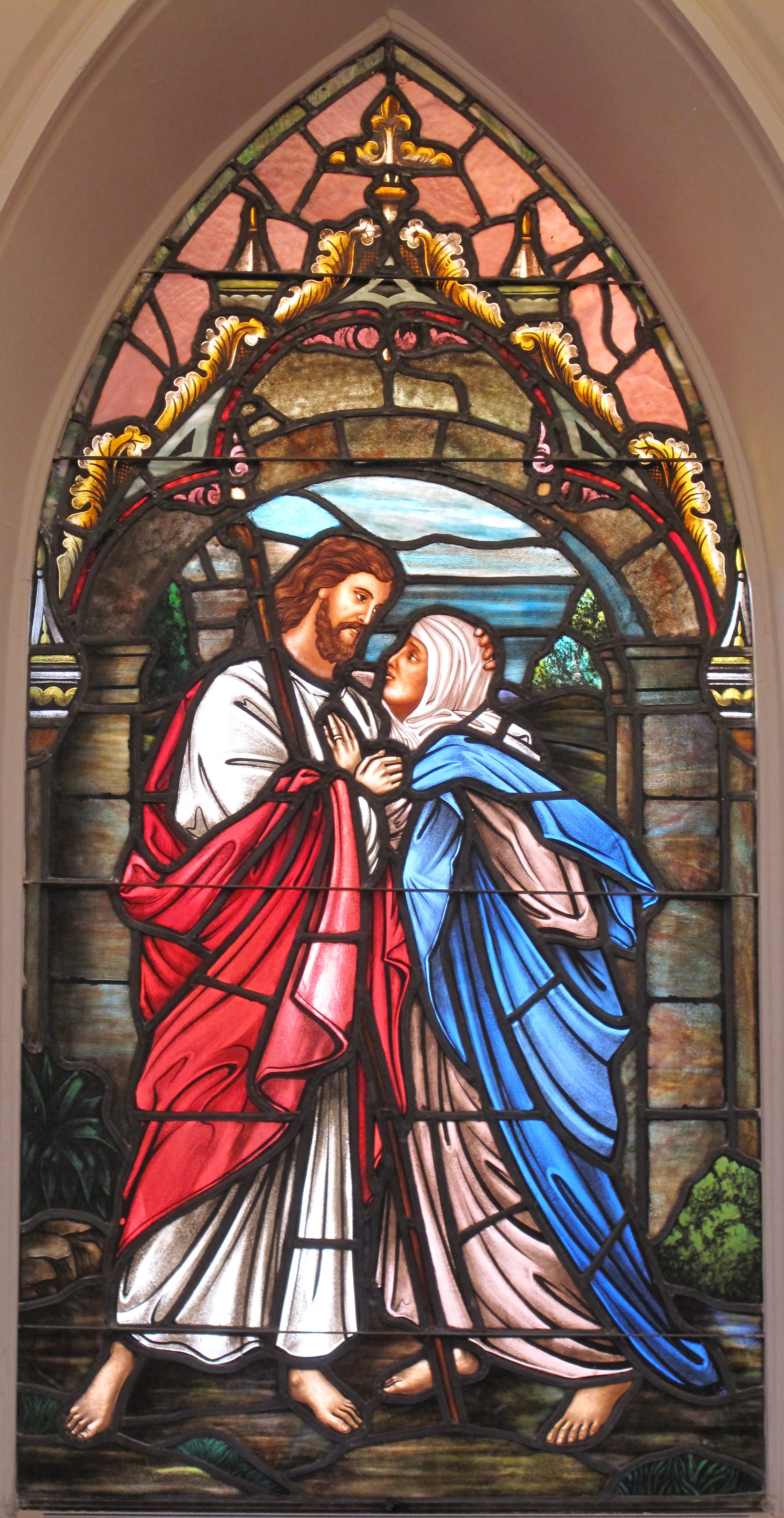 The Jesus Heals a Leper window at St. Matthew's Lutheran Church in Charleston, South Carolina. Attributed to the Quaker City Glass Company of Philadelphia, 1912.